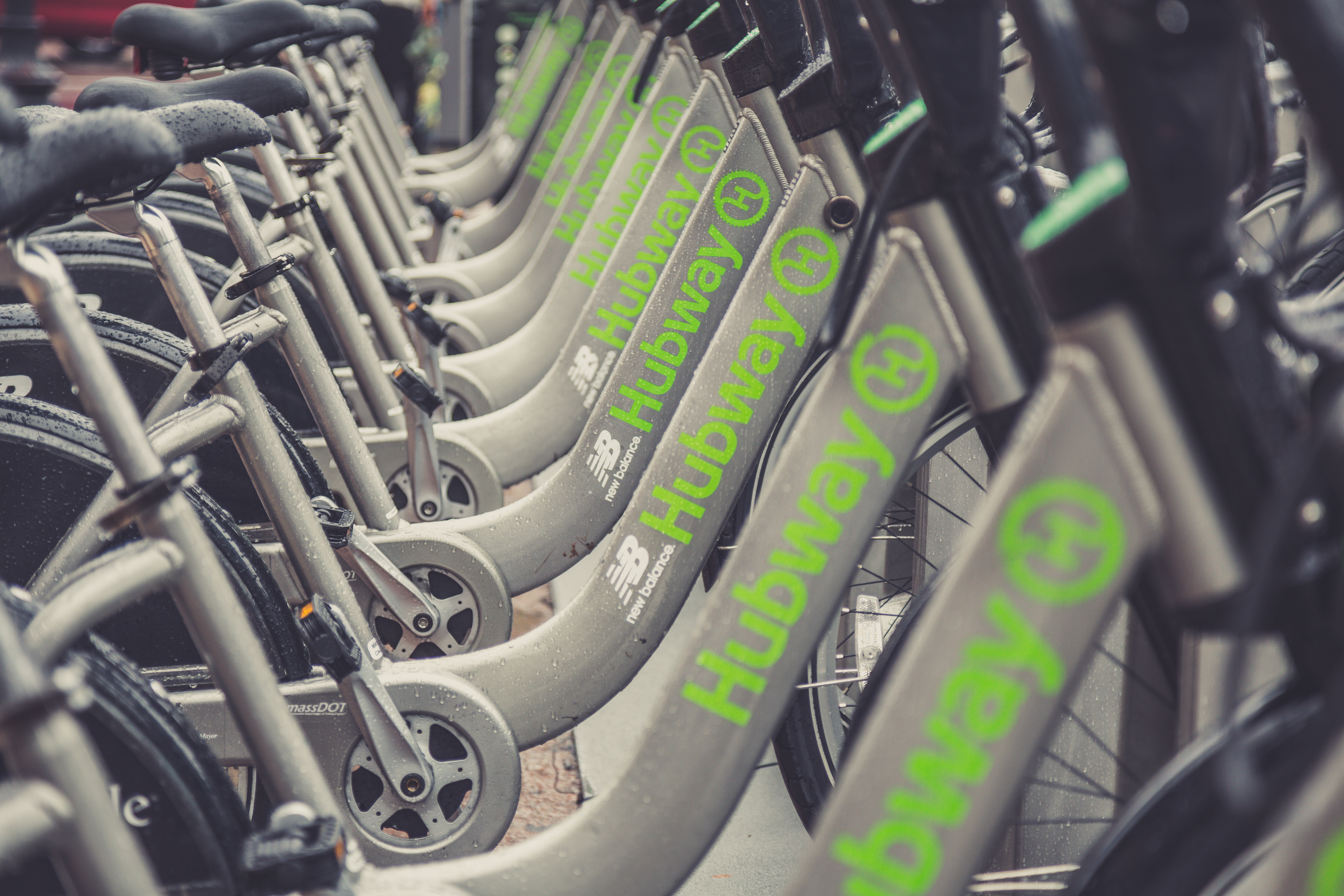 A Hubway bicycle sharing station outside the Boston Public Library on a rainy day.